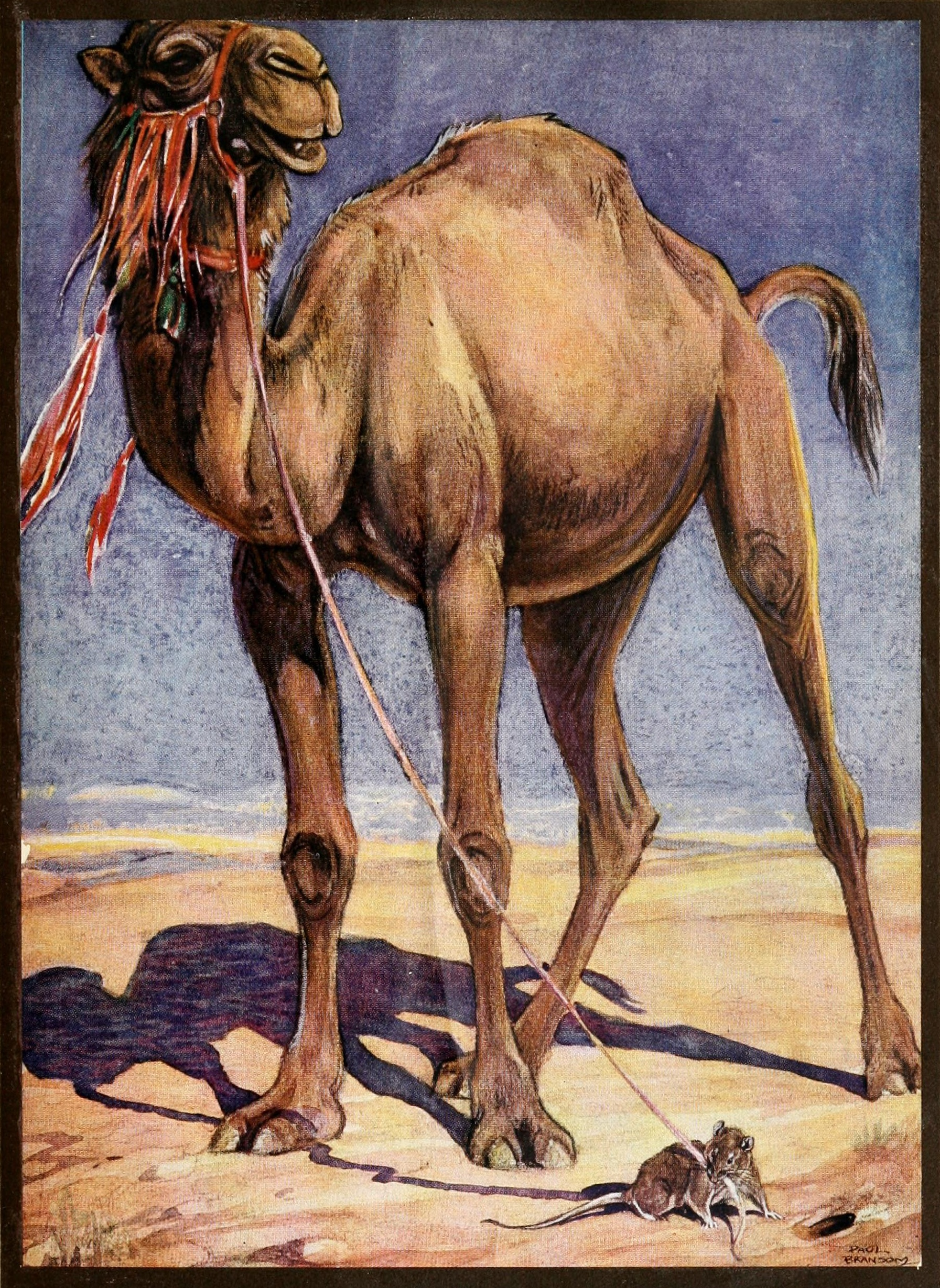 Scan of illustration in a collection of fables